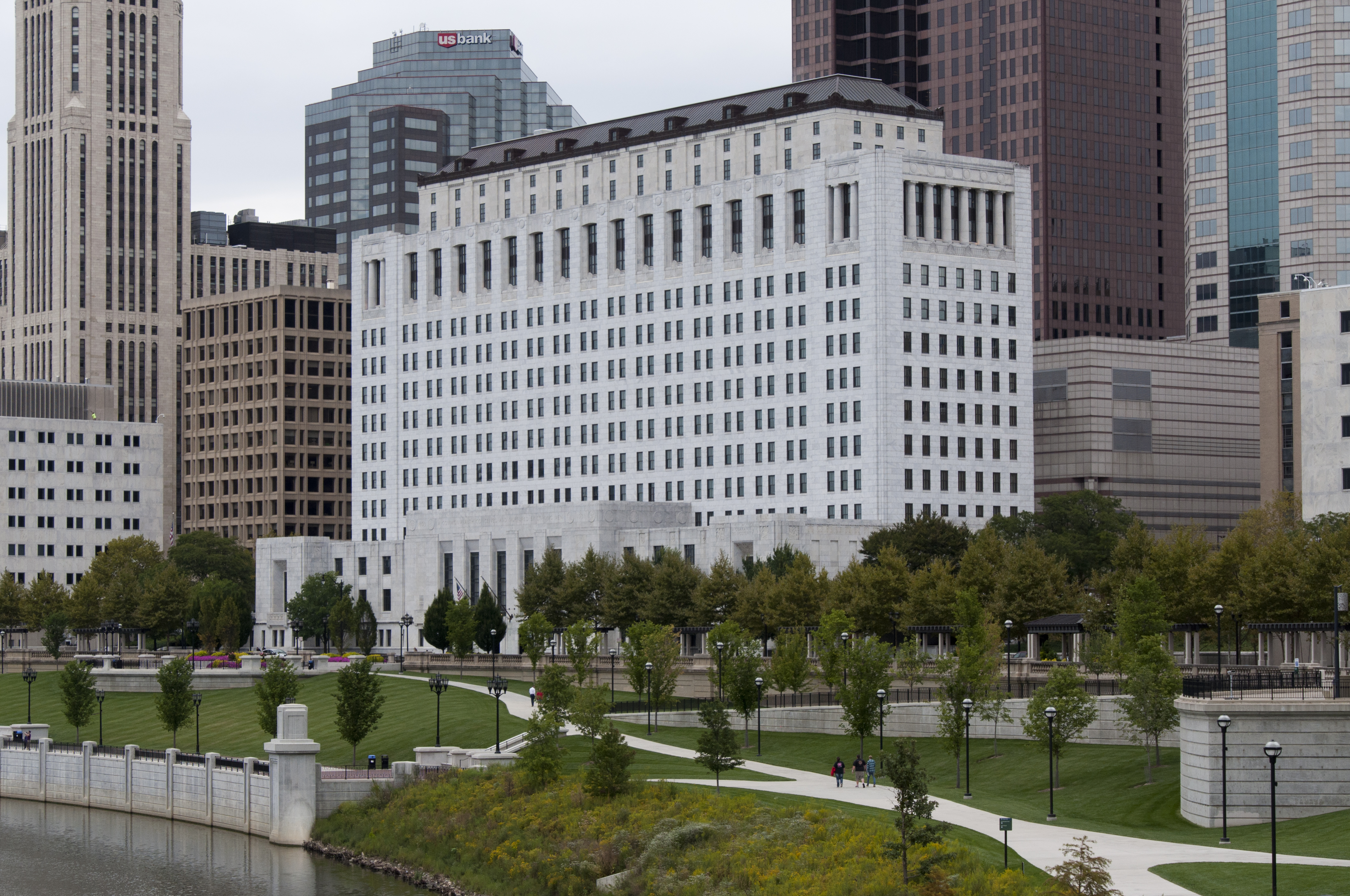 The Thomas J. Moyer Ohio Judicial Center, Ohio State Office Building, is home to the Supreme Court of Ohio. Located at 65 S. Front St. it is listed on the National Register of Historic Places. Shot from the Rich St. Bridge looking from the SW.